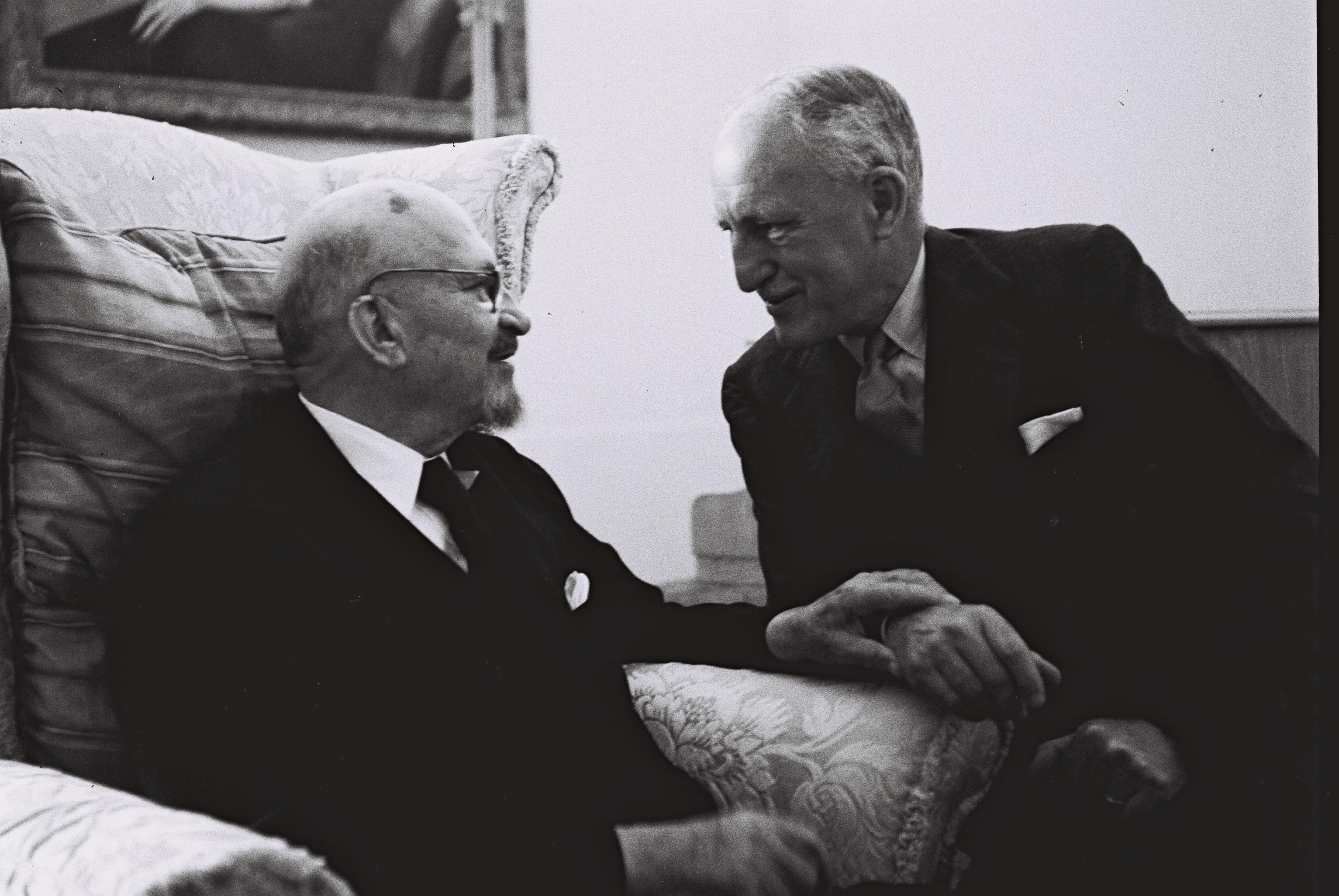 Original Description: BRITISH AMBASSADOR ALEXANDER KNOX HELM (RIGHT) IN CONVERSATION WITH PRES. WEIZMANN AT THE INDEPENDENCE DAY RECEPTION AT THE PRESIDENT'S RESIDENCE IN REHOVOT.